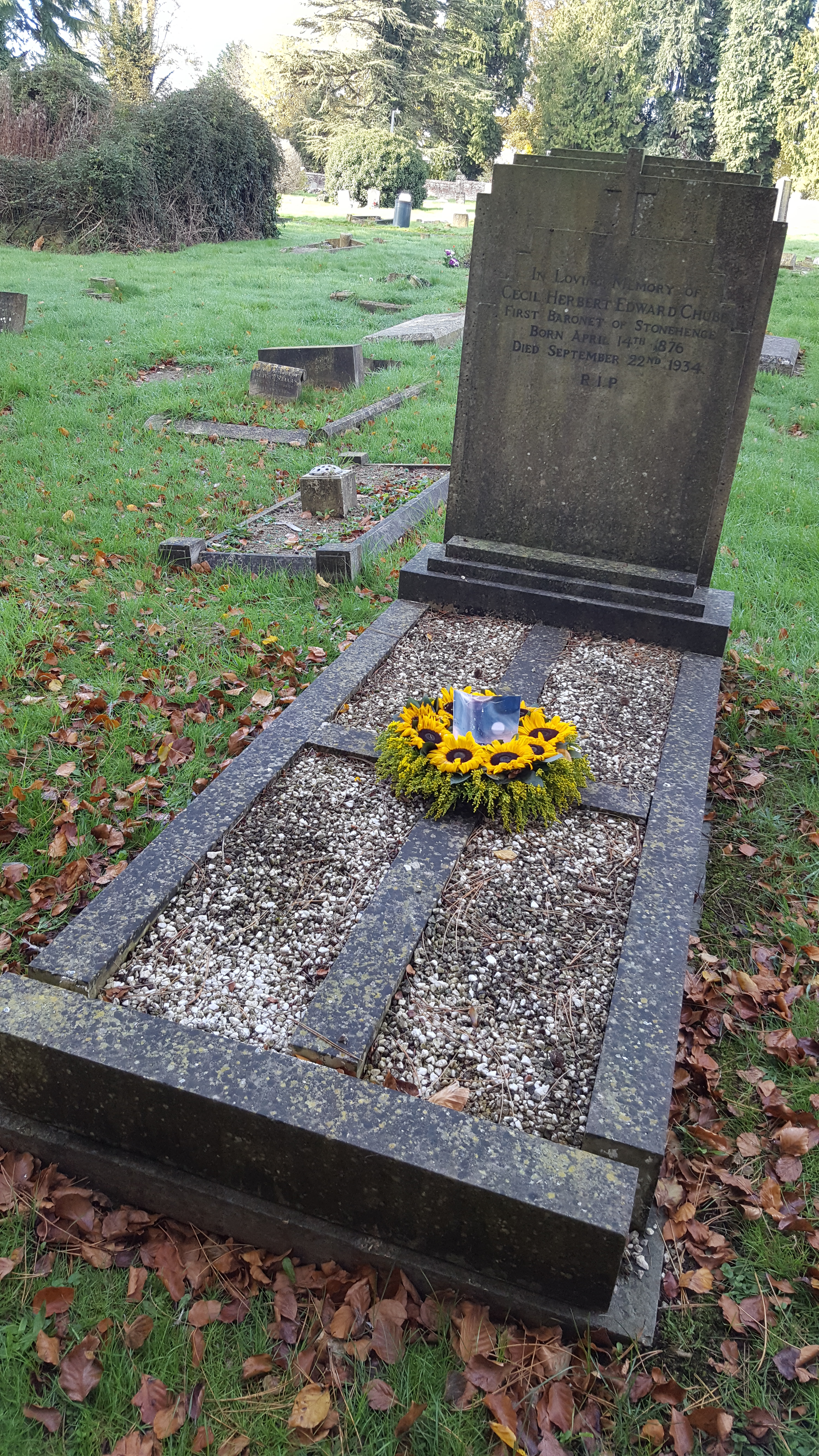 An image of the grave of Cecil Chubb on the centenerary of him and his wife, Mary, donating Stonehenge to the nation. The wreath was laid by English Heritage members of staff and volunteers at the Stonehenge site.